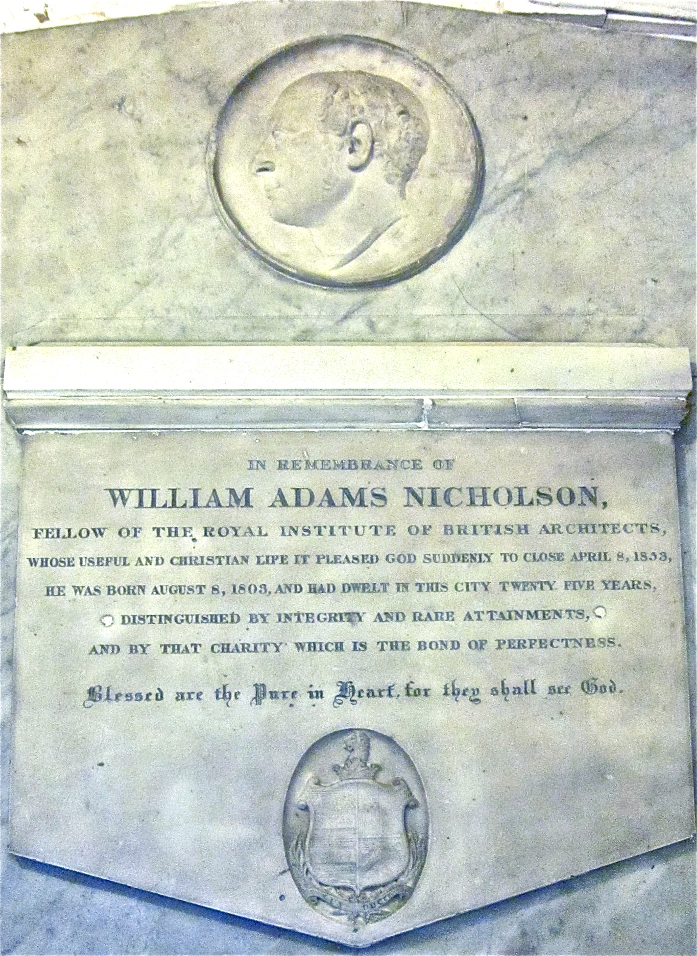 Monument to W A Nicholson in St Benedict's parish church, Lincoln